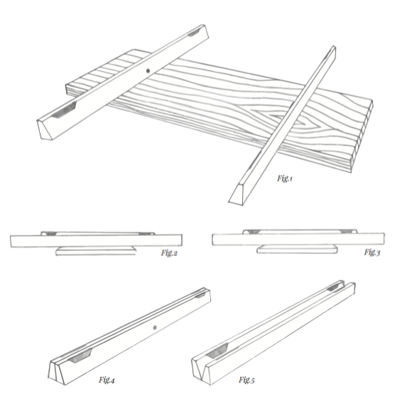 Winding Sticks User Guidance, Care and Maintenance.